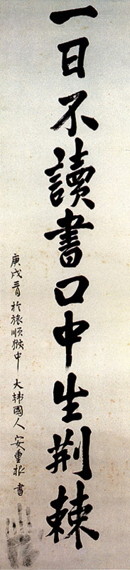 One of An Jung-geun's posthumous calligraphy. This work is "一日不讀書口中生荊棘 庚戌三月於旅順獄中 大韓國人安重根書"(Korean pronunciation: il il bu dok seo gu jung saeng hyeong geuk, Meaning: Unless reading everyday, thorns grow in the mouth.), Treasures No. 569-2 of Korea republic.